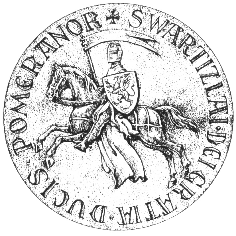 Seal of Warcisław III